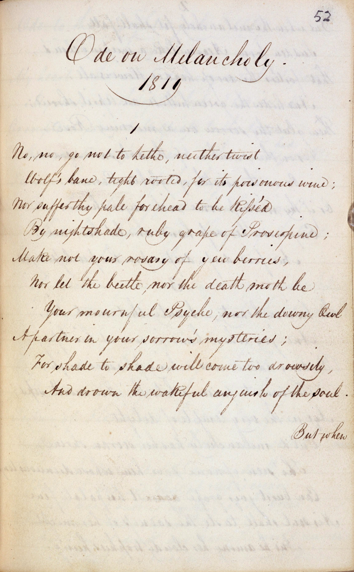 Manuscript copy of Keats' poem, probably by his brother George.